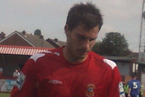 Chris Smith playing for Tamworth against Redditch United at the Lamb Ground, Tamworth on 25 August 2008 Originally uploaded under File:Smith, Chris.jpg at 19:58, 27 August 2008, but overridden at 02:33, 12 July 2009